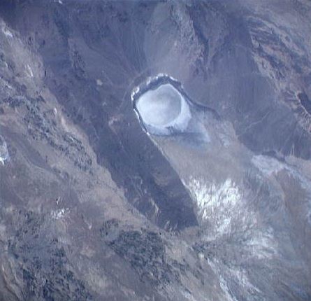 Lake Howz-e Soltan in Qom province, Iran